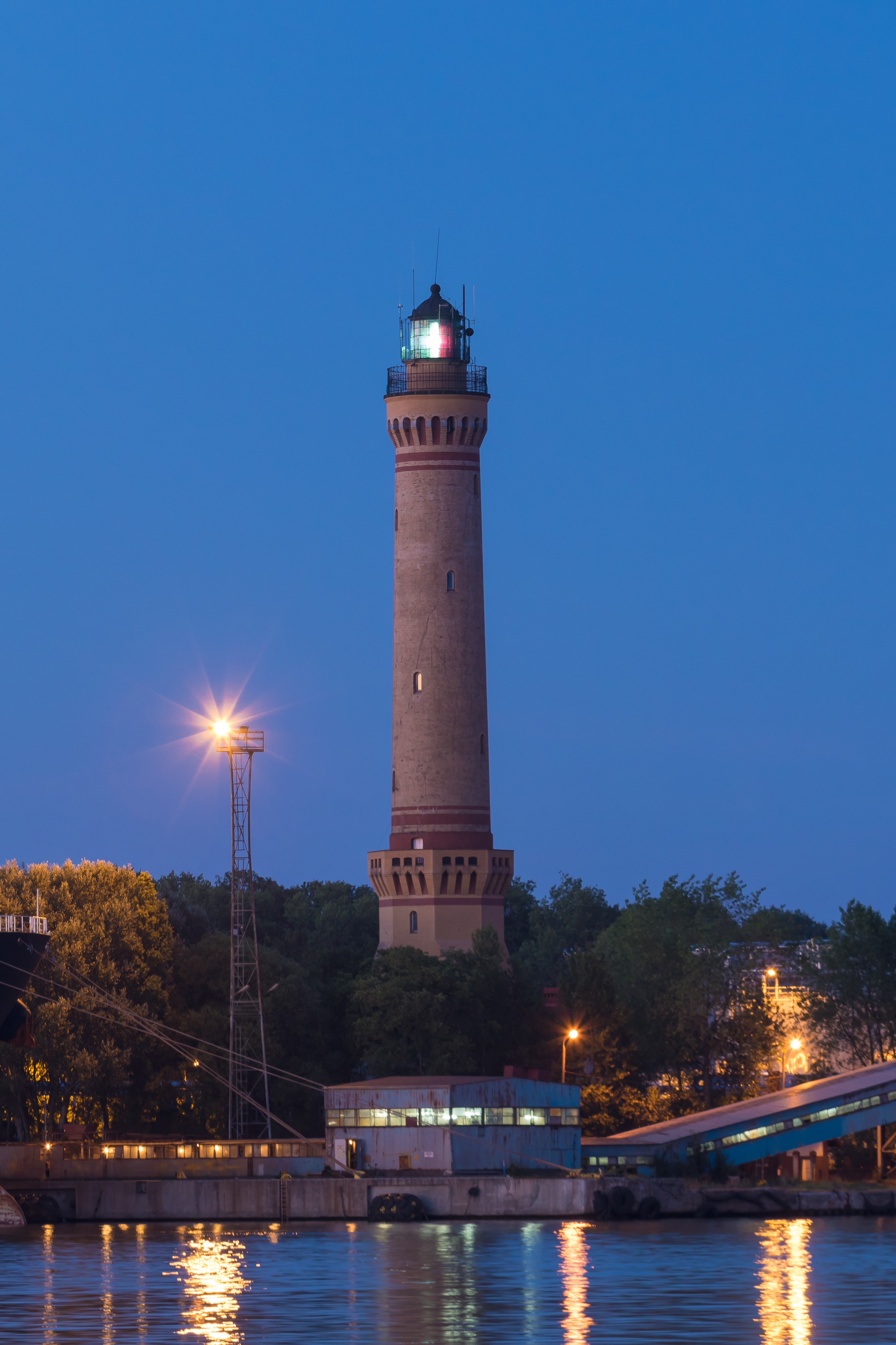 Photo taken during a trip on the Polish coast in July 2018. An expedition co-financed by the Wikimedia Poland Association and the Society of the Friends of the National Maritime Museum in Gdańsk